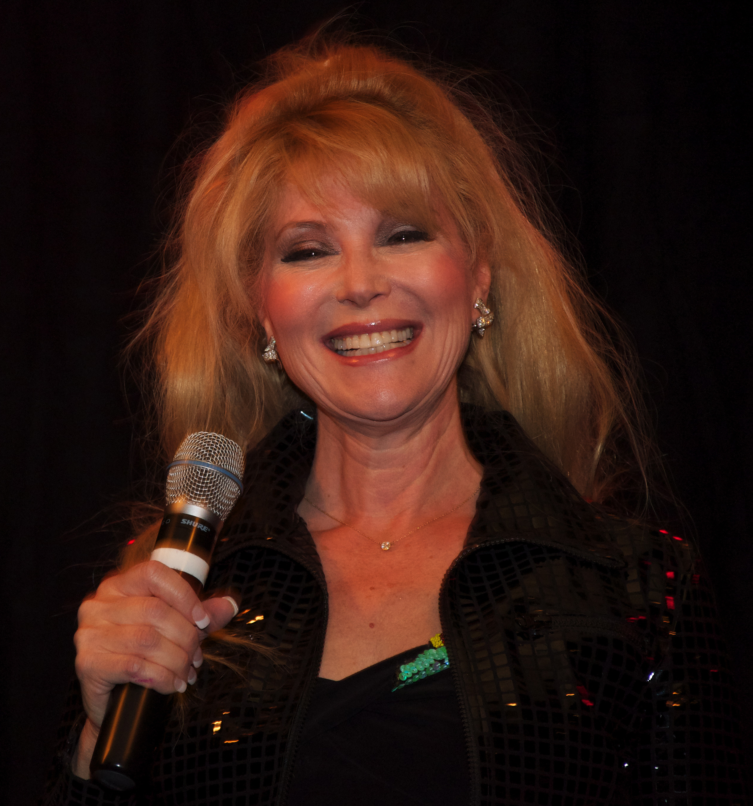 Audrey Landers was visiting 'The Three Sisters "and also the Hotel de Doelen in the city of Groningen, which are located on the main market.